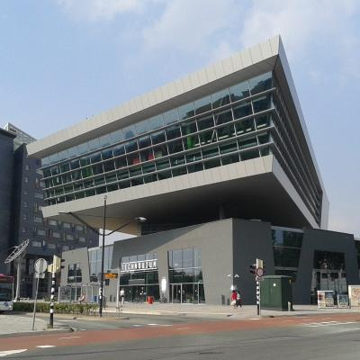 Technovium, a technical vocational school, Heyendaalseweg 98, Nijmegen.